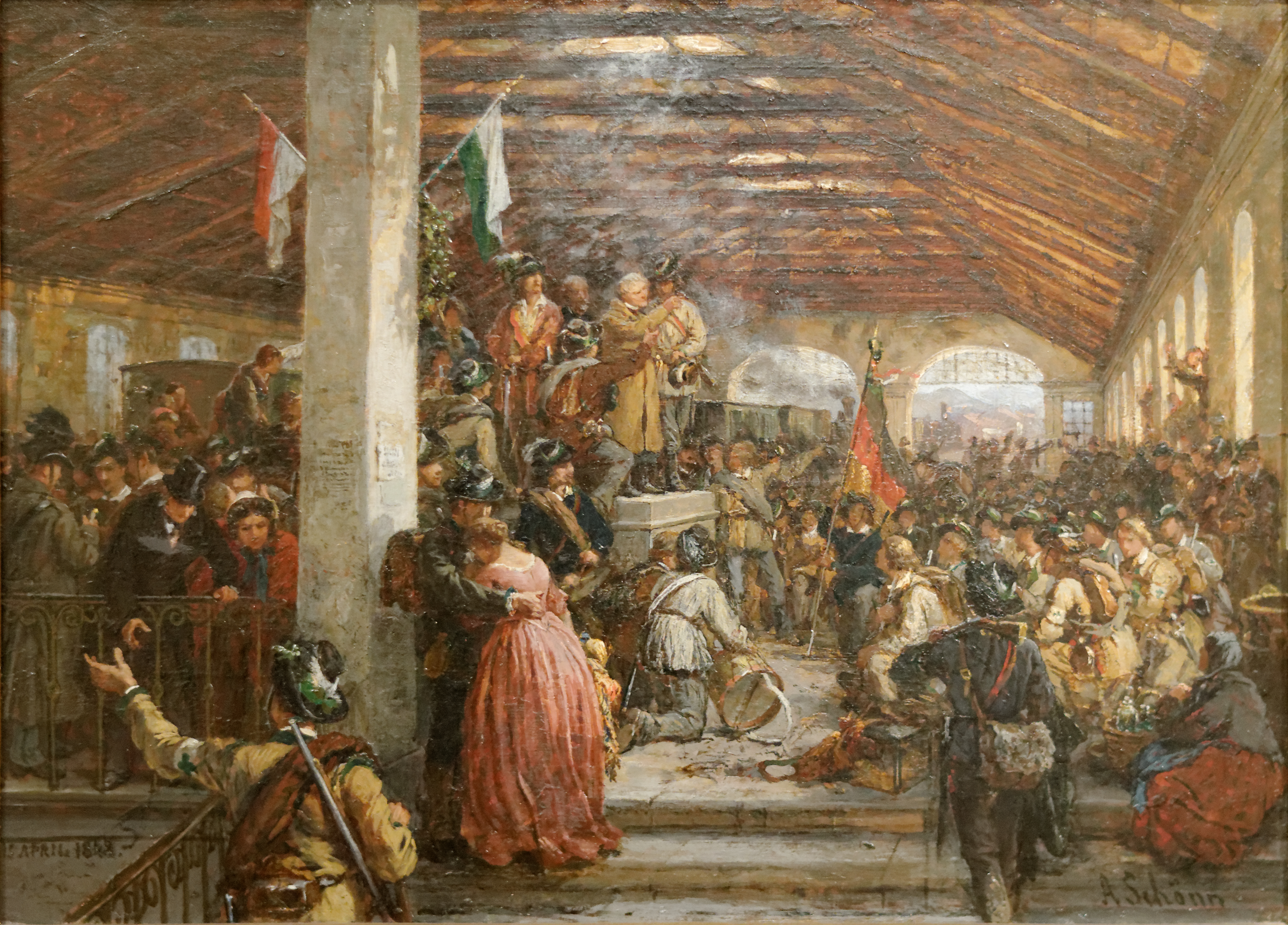 First group of Volunteers for the army of Radetzky at the old Vienna Südbahnhof before their departure